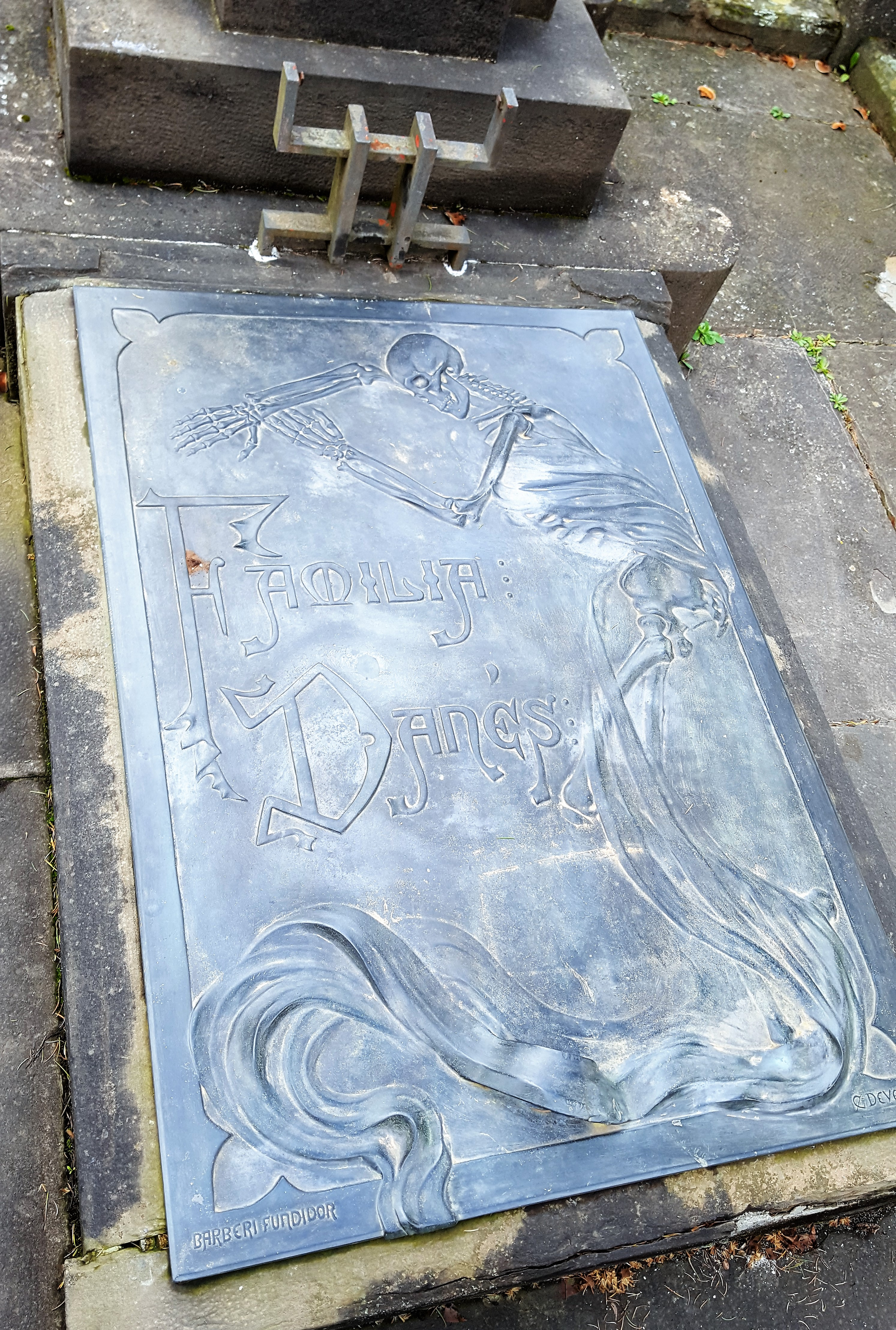 Celestí Devesa: Modernistic tomb slab of the family Danès at the cemetery of Olot, Catalonia, 1905